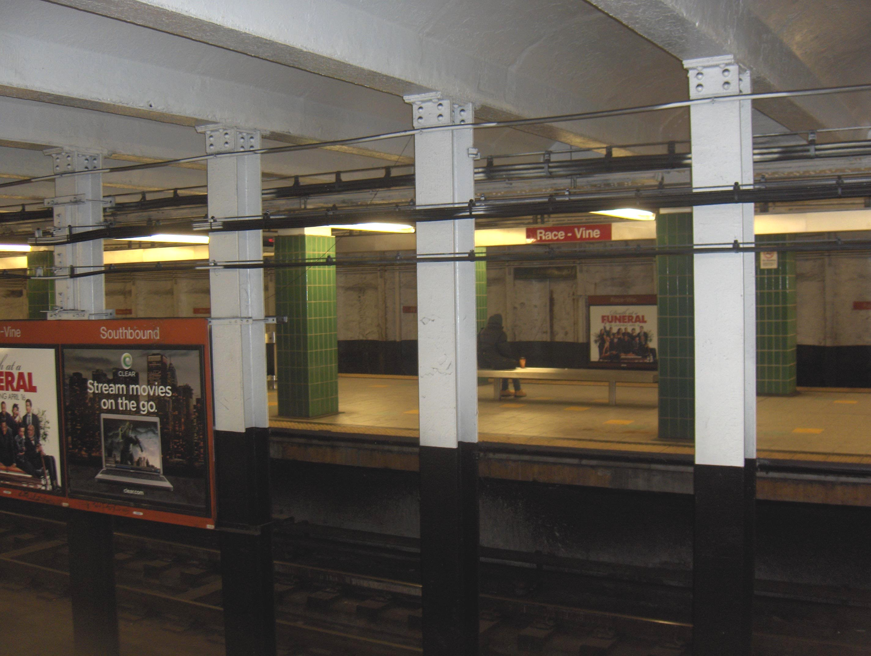 SEPTA Broad Street Line, Race-Vine northbound platform